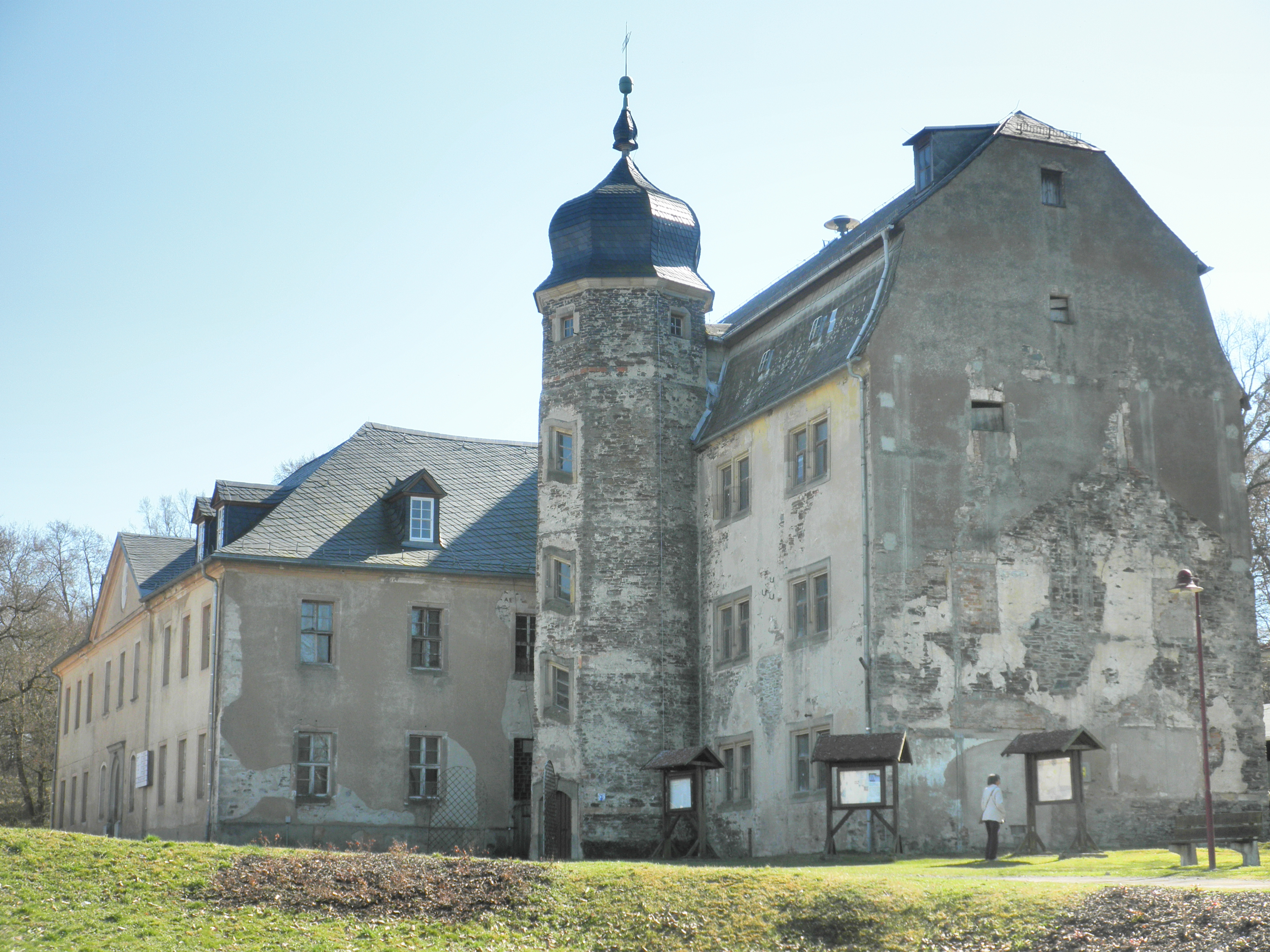 Castle in Knau in Thuringia